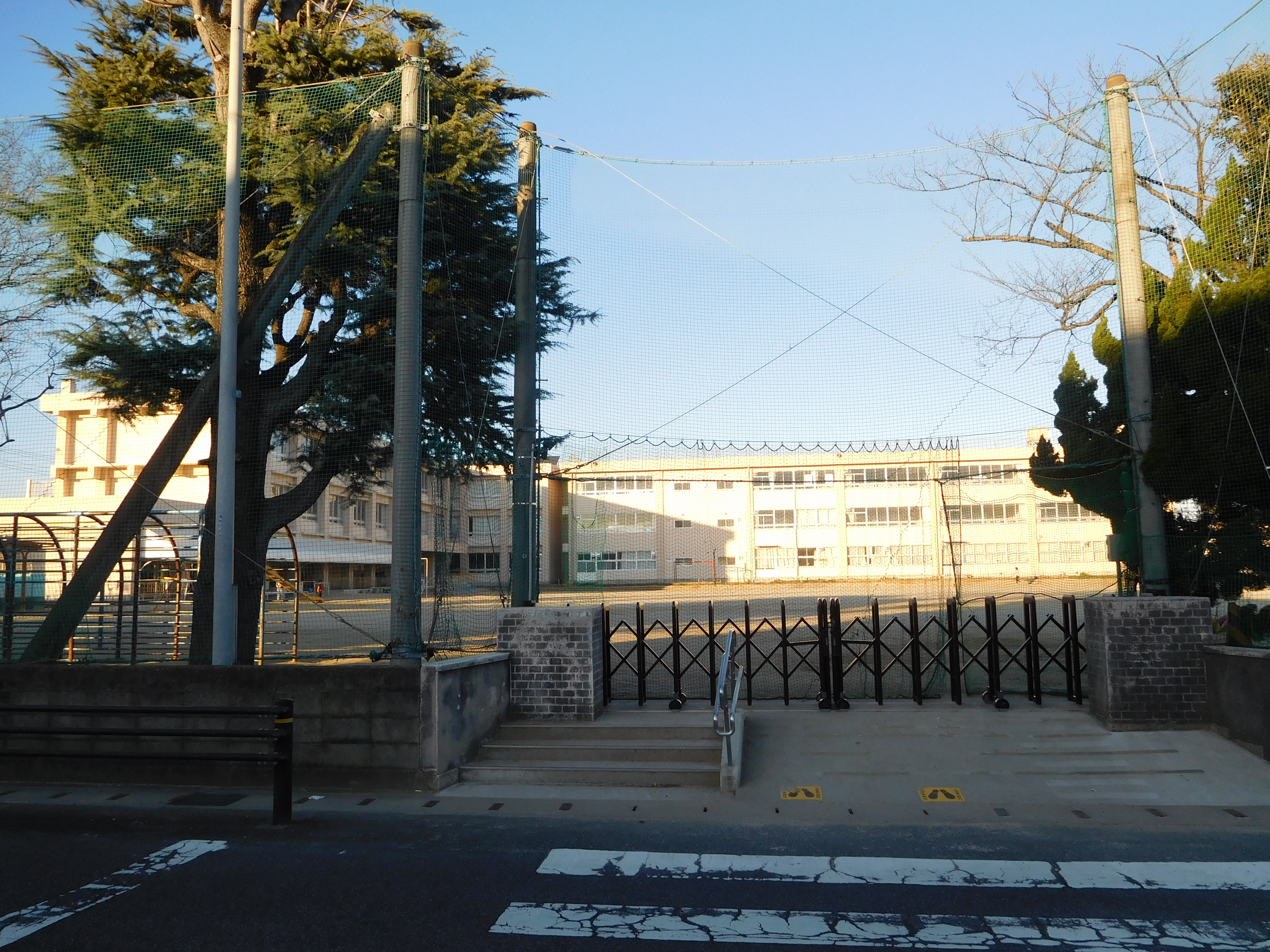 This is Tsu City Shiratsuka Elementary School, which is located in Shiratsuka-cho, Tsu, Mie, Japan.